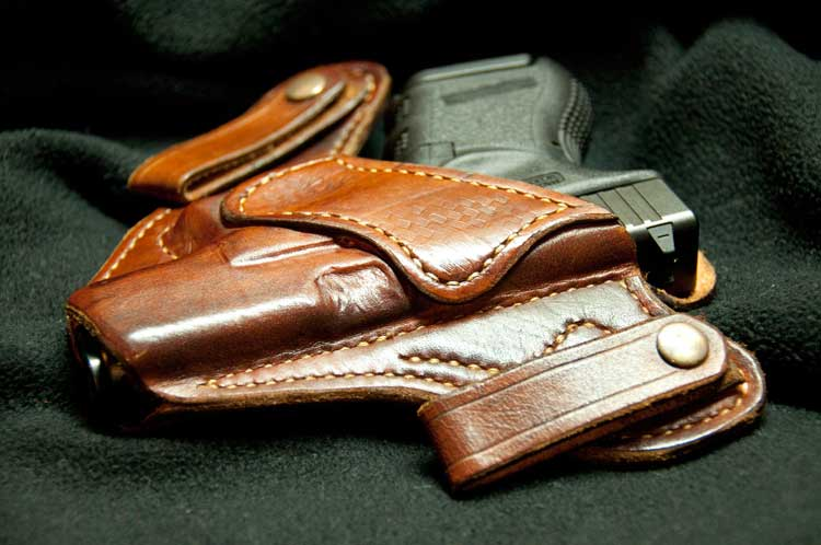 Here is an antique holsters from